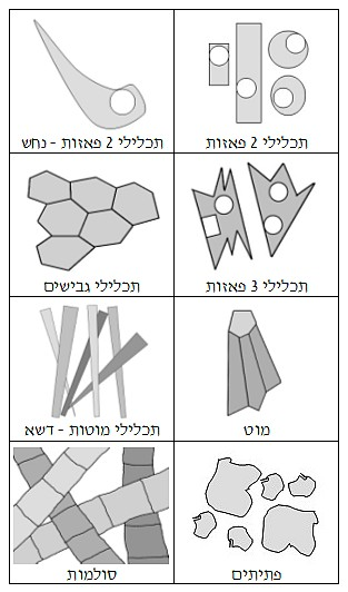 Inclusions Hebrew